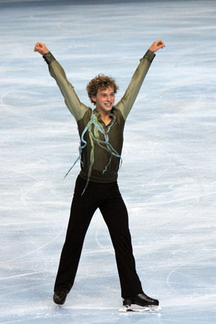 Adam Rippon(USA) at the 2009 Trophee Eric Bompard.